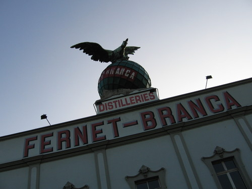 Outside of the Fernet Branca Museum in Saint-Louis (Haut-Rhin)